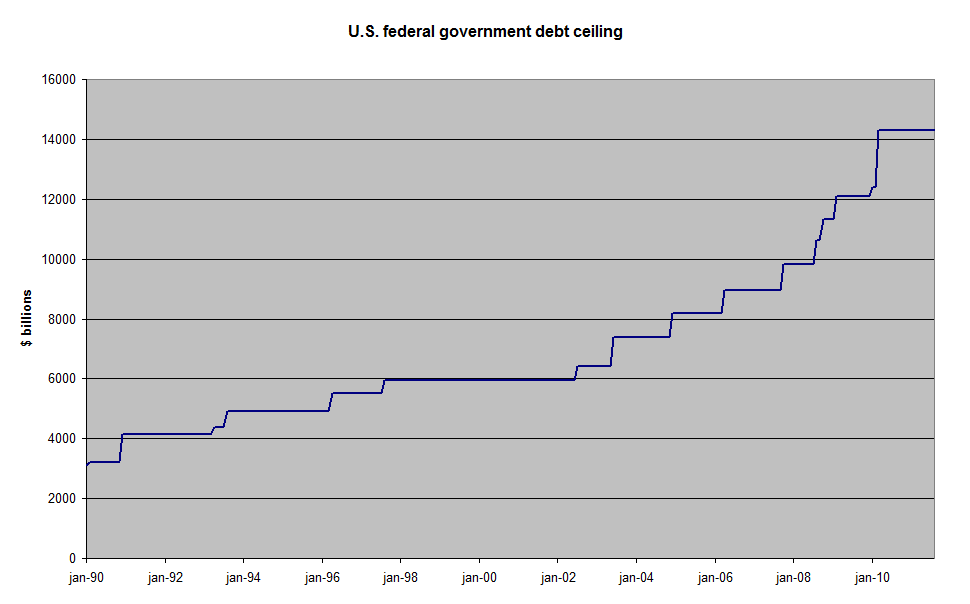 Development of debt ceiling from 1990.